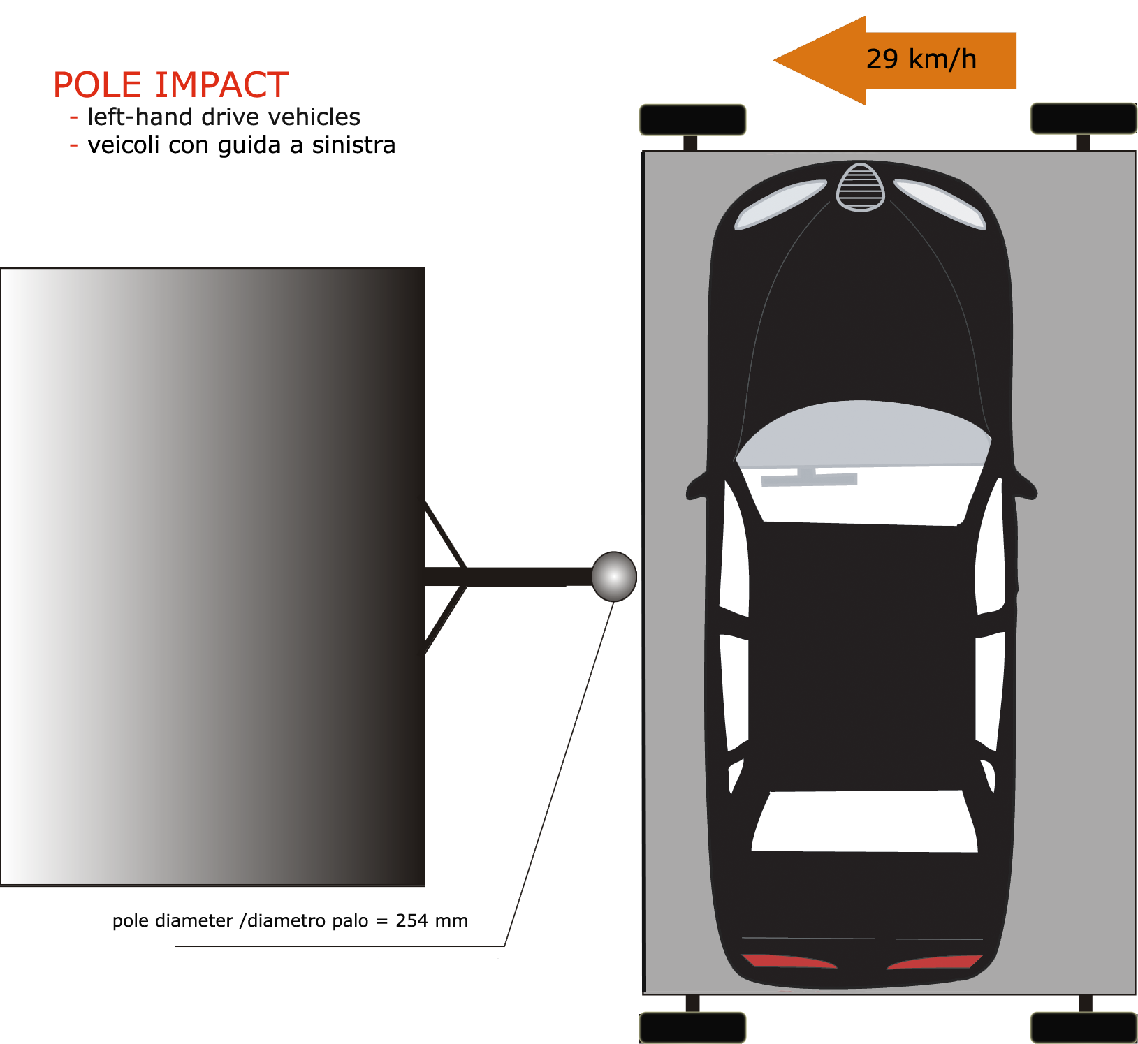 Crash Test EuroNCAP: Pole Impact (left-hand drive veicles version)